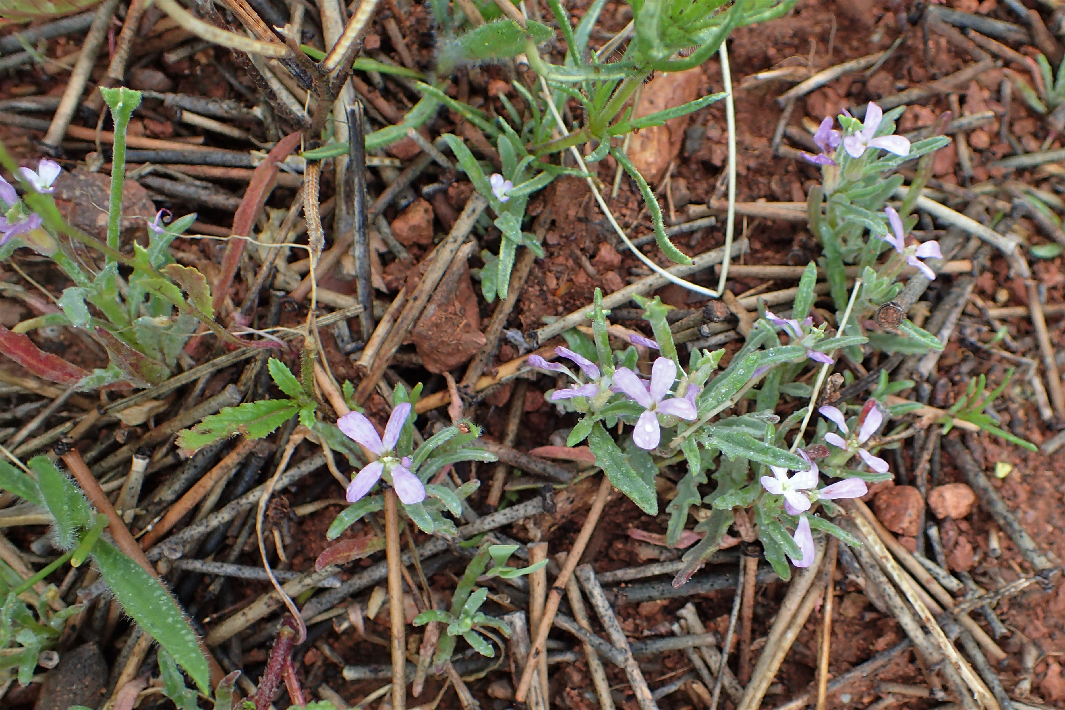 Matthiola parviflora in Tnin Ourika (Marrakesh-Safi, Morocco)